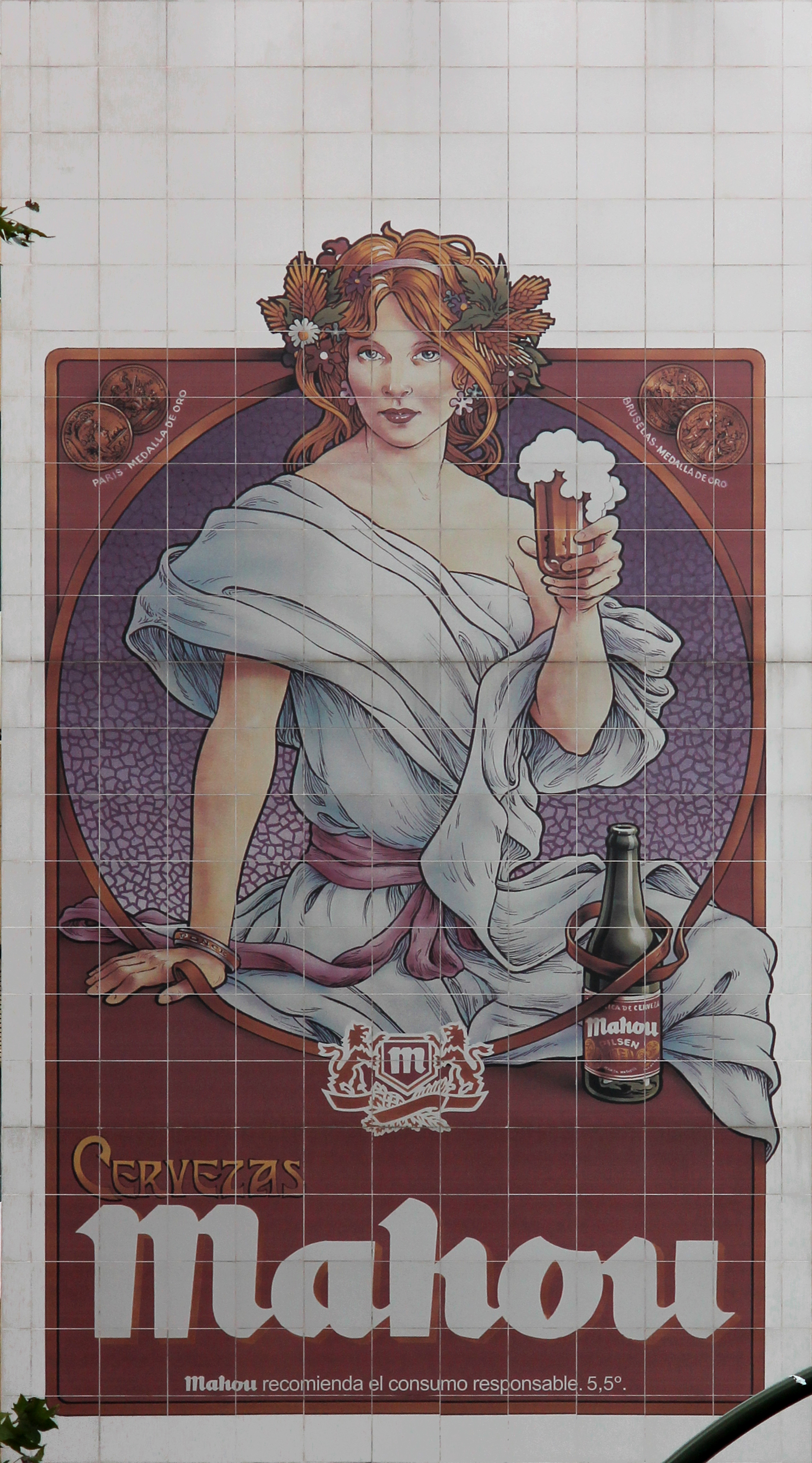 A Mahou advertisement.